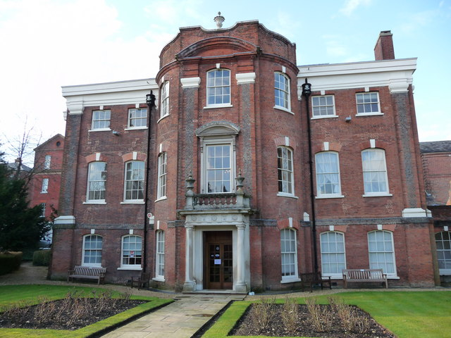 Winchester - Royal Hampshire Regiment Museum Serle's House was built around 1730 and since 1781 when it was purchased by James Serle has been used by the military. It now houses the Royal Hampshire Regiment Museum.